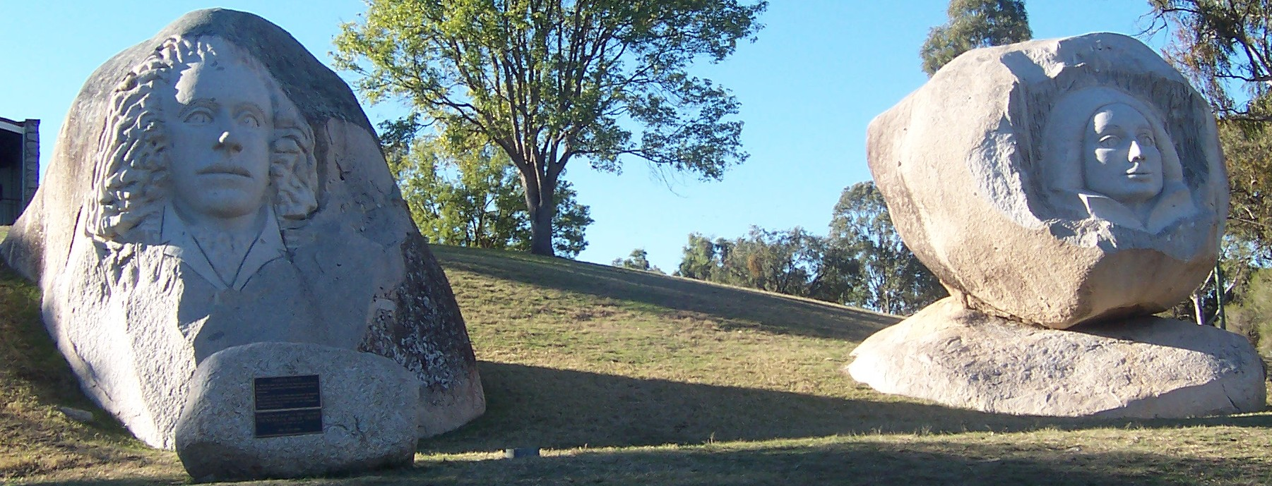 Digital photo of the Leslie sculptures at Leslie dam, near Warwick, Queensland, Australia. The sculptor was Vernon Foss of Leyburn, Queensland.